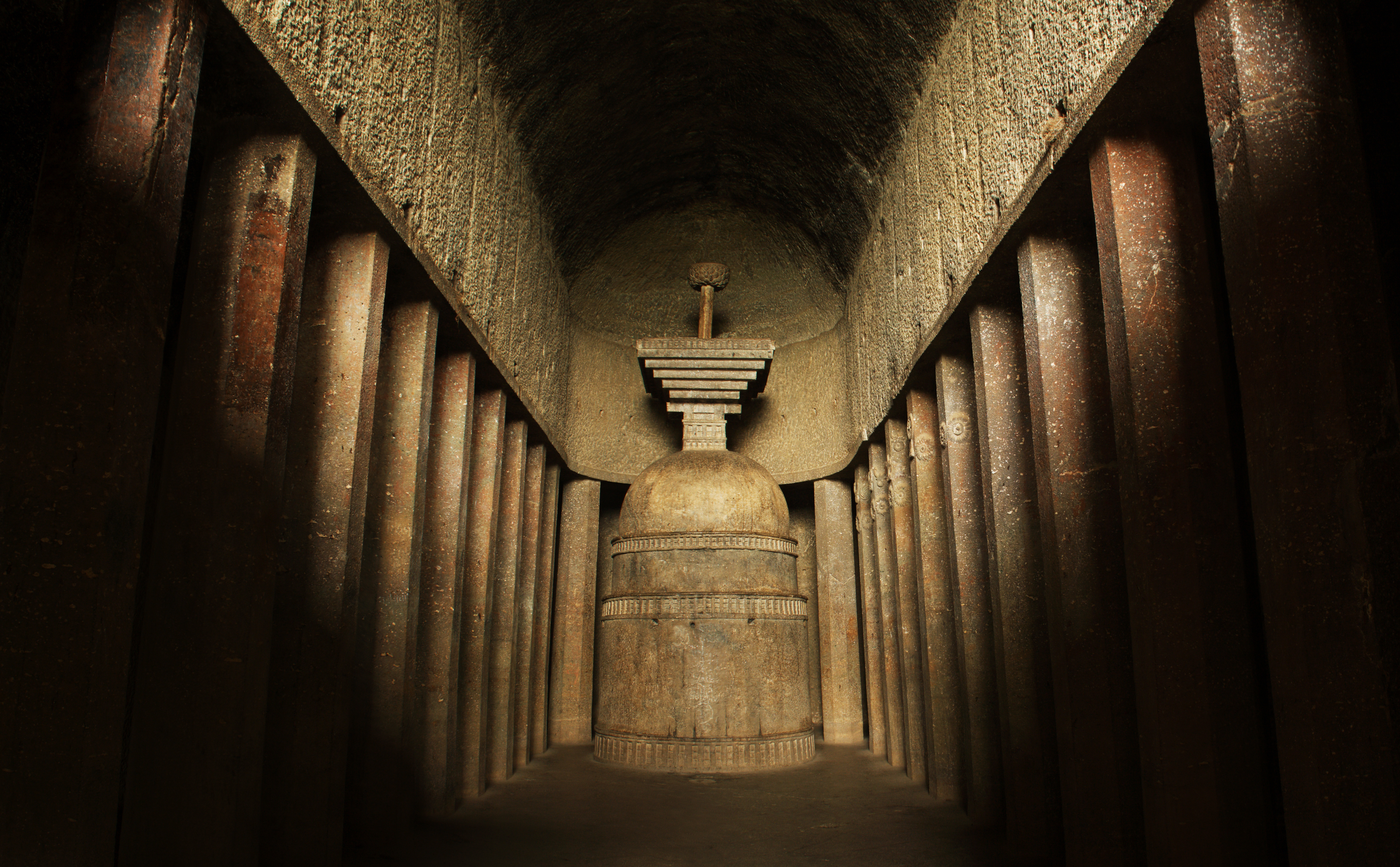 The history of the caves can be traced back up to 1st century BC. There are two main caves. The best known cave is the chaitya (prayer hall) with comparatively large stupa, the other cave is monastery - vihara. Both the caves contain some carvings although are less ornate than later caves. Both caves are facing eastwards so it is recommended to visit the caves early morning, as in sunlight the beauty of carvings is enhanced. There is also a small "Stupa" outside to the right of the main caves. Small Waterfall created by rain at Bedse Caves Until around 1861 the caves were regularly maintained - even painted. These works were ordered by local authorities in order to please British officers who often visited caves. This has caused loss of the remnants of plaster with murals on it. Bedse Caves are comparatively less known and less visited. People know about the nearby Karla Caves and Bhaja Caves but have hardly heard of Bedse Caves. The trilogy of the caves (Karla - Bhaje - Bedse) in Mawal Region can't be completed without Bedse. An easy hike through steps leads to the caves. Also close to the Bedse caves are the famous foursome of Lohagad, Visapur, Tung and Tikona forts adjoining the Pawana Dam. The best time to visit Bedse Caves is the rainy season as the hills are filled with lush greenery during that time. Also many small waterfalls are created that can only be enjoyed during the rainy season. As this is one of the lesser known spots, not many tourists throng the place, so makes it easy to enjoy the views. Bedse Caves can be reached from Pune via Kamshet. Upon reaching Kamshet Chowk , left route is to be taken. That route goes straight to Bedse Village where the caves are located. They can also be reached via Paud - Tikona Peth - Pawananagar. Alternate route is from Somatne-Phata on the Pune-Mumbai NH4 Highway.